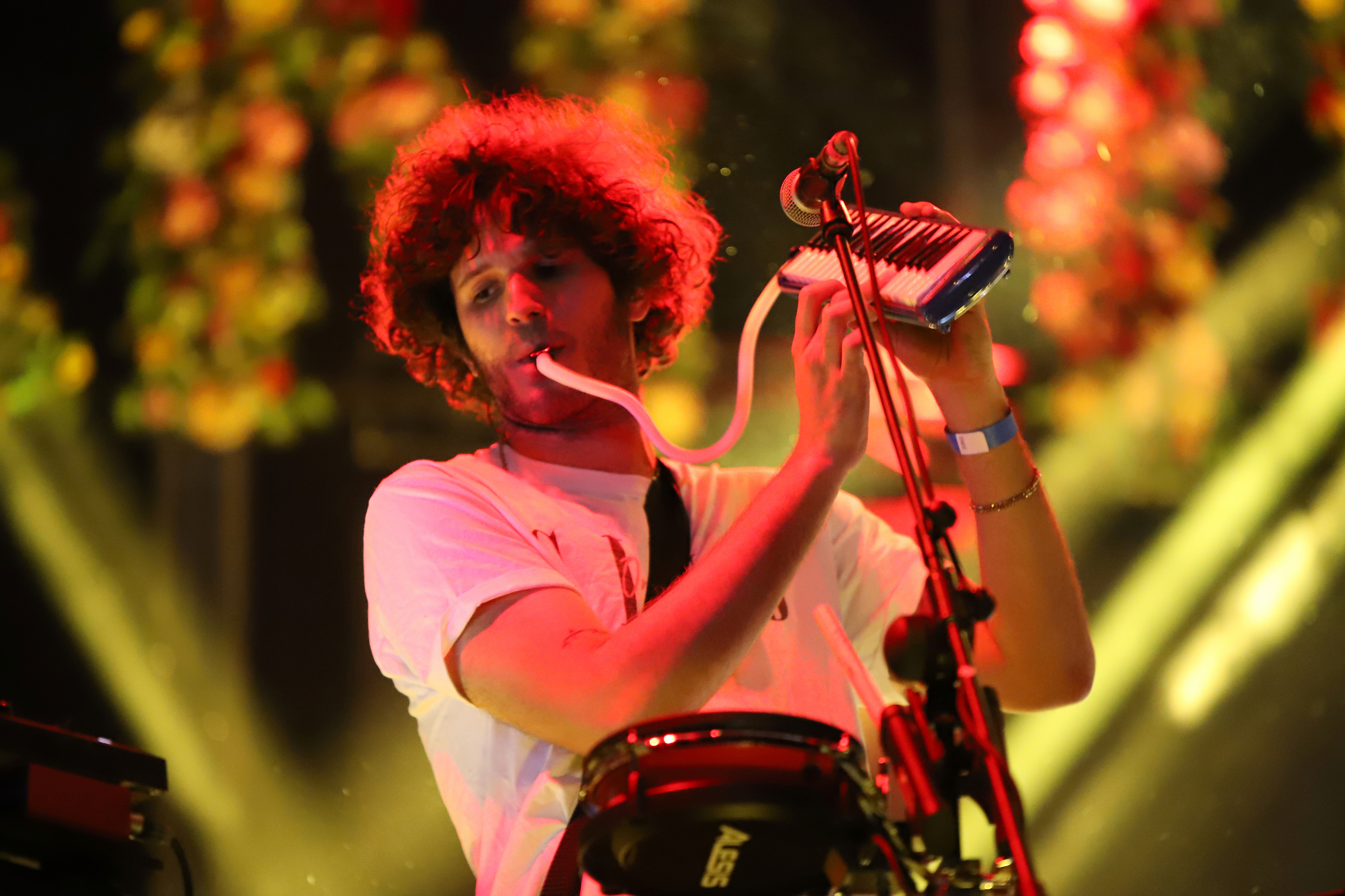 Kid Simius at a concert of the city festival San Isidro in Madrid, Spain.